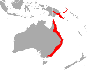 Smaller Horseshoe Bat (Rhinolophus megaphyllus) range